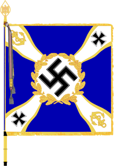 Kreigsmarine land flag